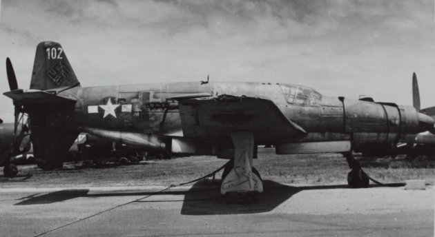 PictionID:38236091 - Catalog:Array - Title:Array - Filename:15_002319.TIF - -------Image from the Charles Daniels Photo Collection.----Album: German Aircraft.-----------PLEASE TAG these images with any information you know about them so that we can permanently store this data with the original image file in our Digital Asset Management System.-----------------SOURCE INSTITUTION: San Diego Air and Space Museum Archive